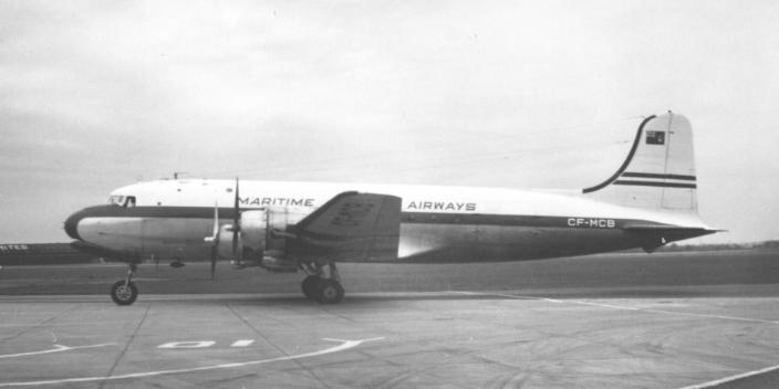 Douglas DC-4 Skymaster of Maritime Central Airways (Canada) at Manchester Airport, England